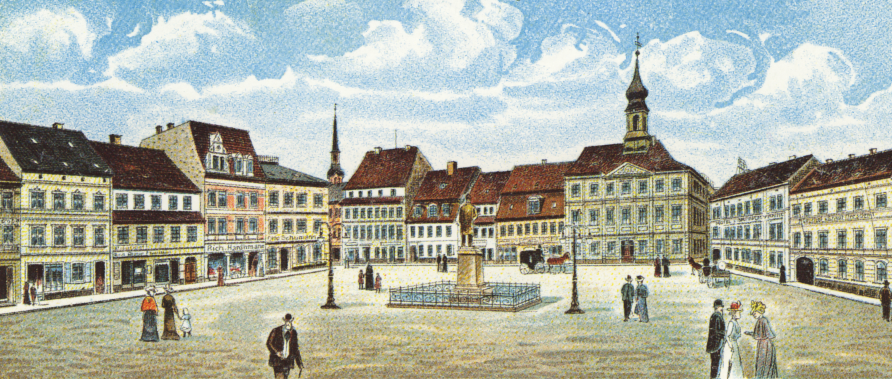 Marketplace in Radeberg.